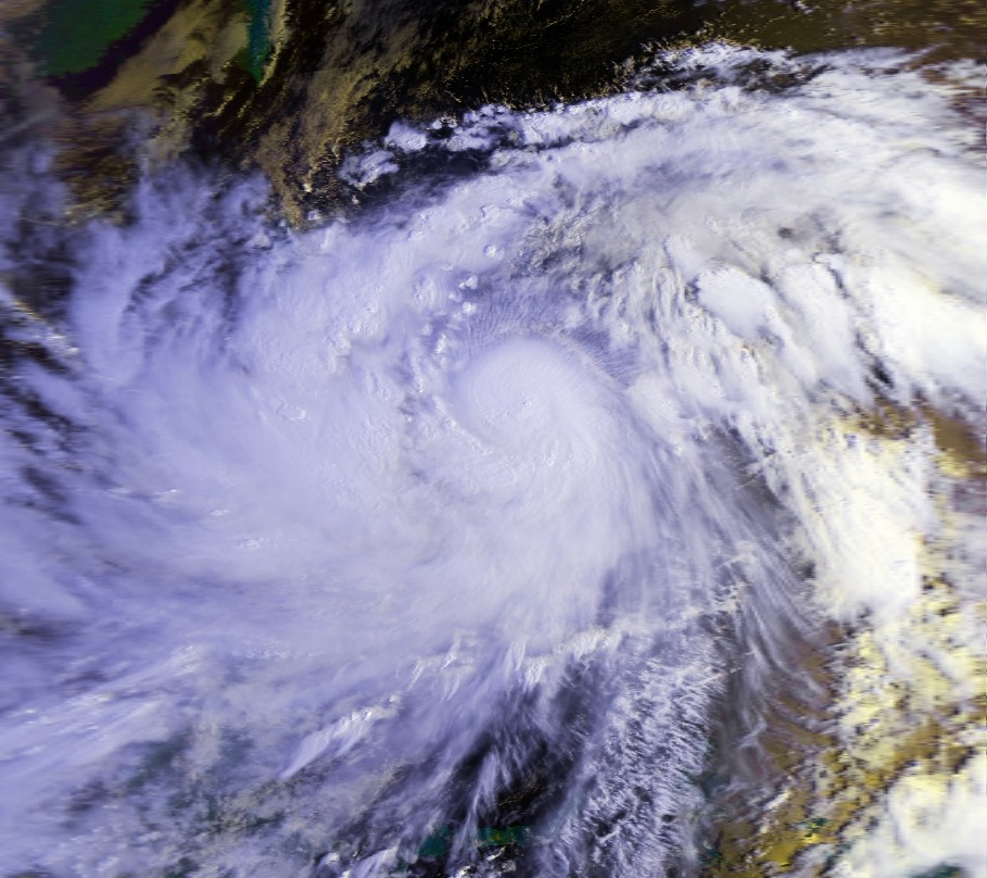 This image shows Typhoon Ruby on October 23 at 2236 UTC. This image was produced from data from NOAA-10, provided by NOAA.